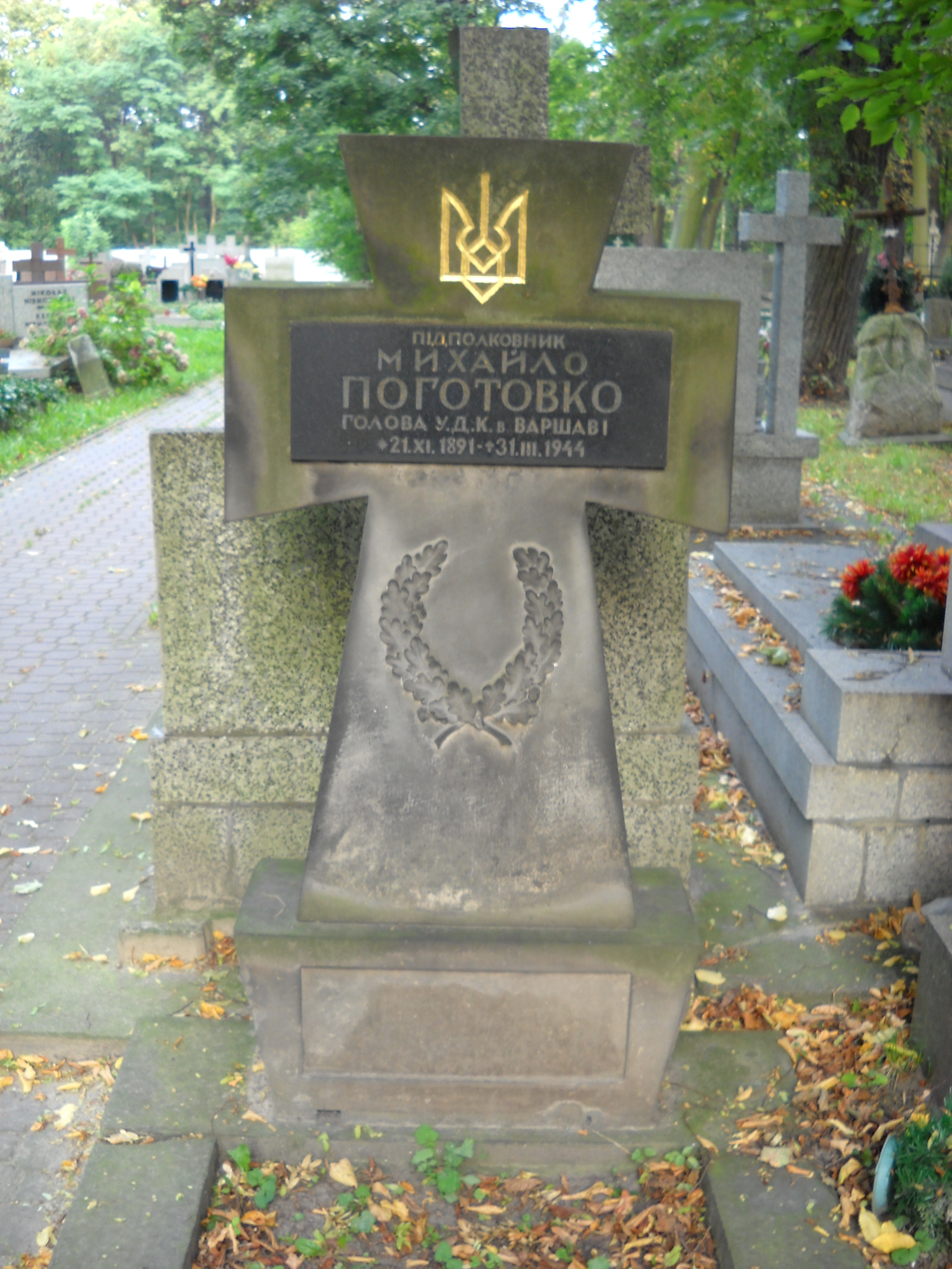 Grave of Mikhailo Pogotovko Orthodox cemetery in Warsaw.